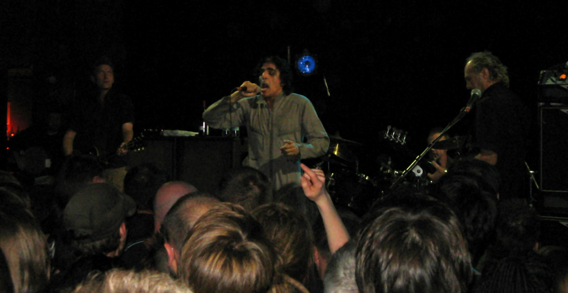 Killing Joke playing live in Paris, le Trabendo, 27 sept. 2008